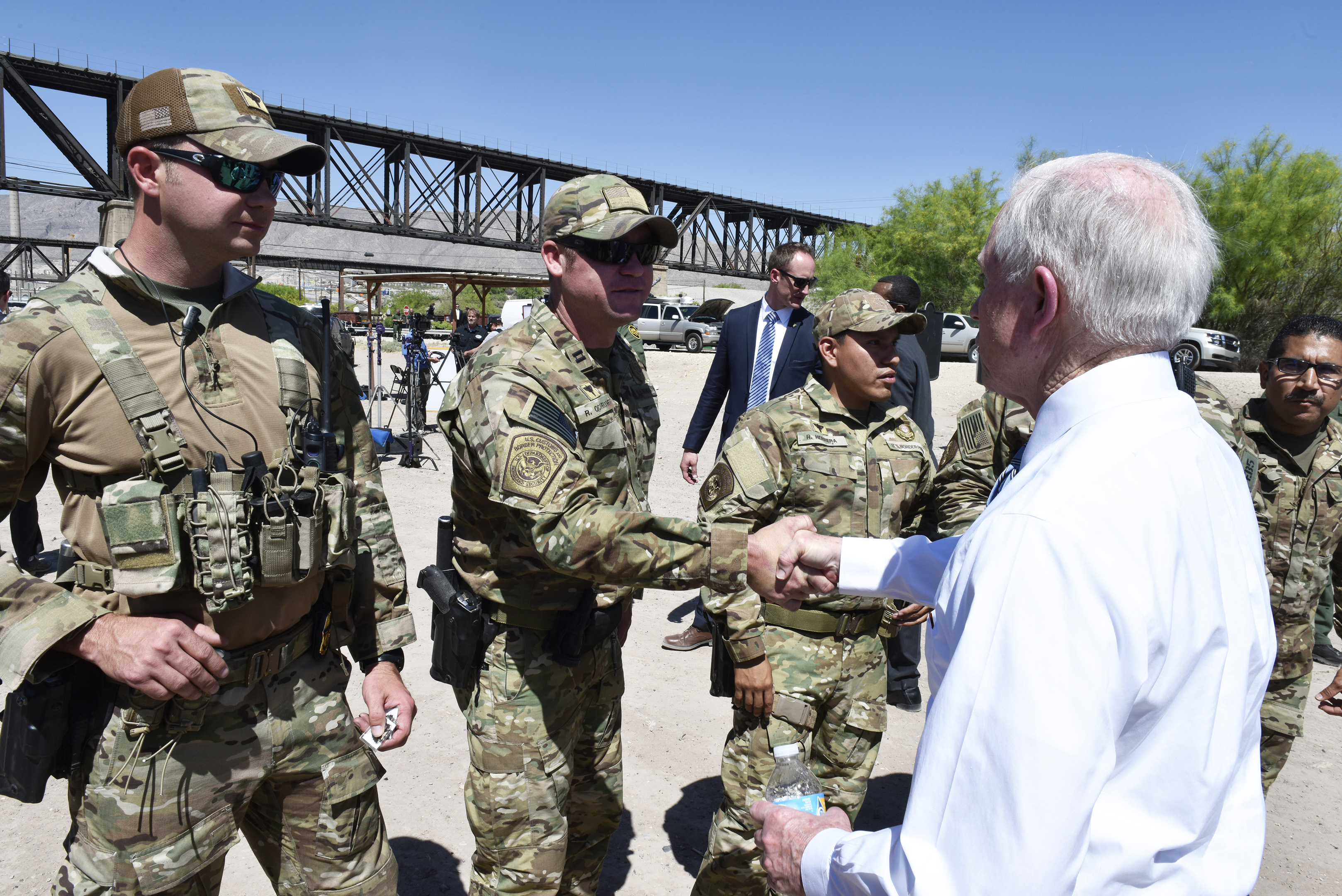 Attorney General Sessions meets with Departments of Justice and Homeland Security personnel. Attorney General Jeff Sessions, joined by Secretary John Kelly of the Department of Homeland Security (DHS), traveled to El Paso, Texas, to observe Southern border operations and meet with Department of Justice and DHS personnel.